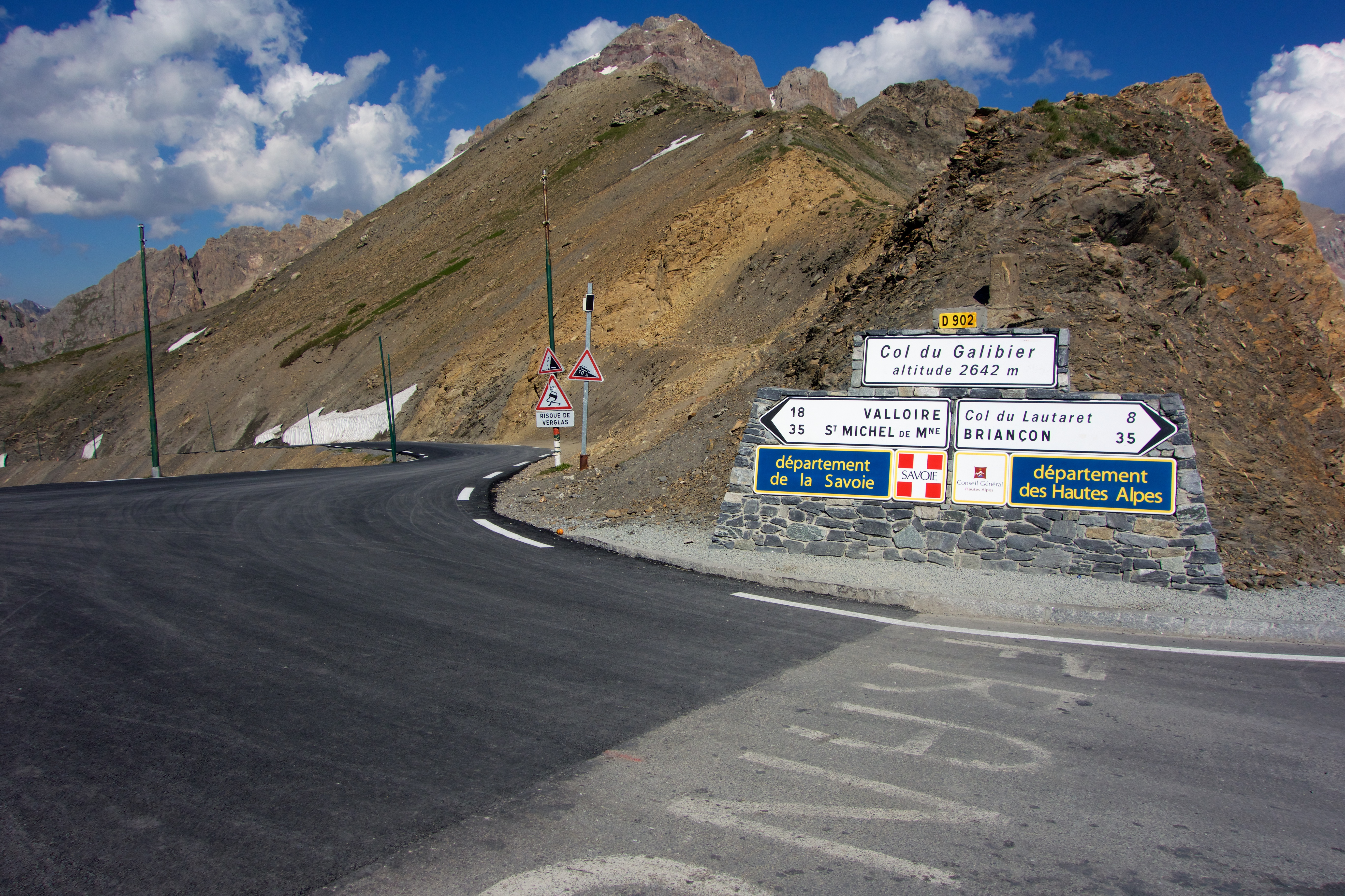 Signpost at the Col du Galibier.